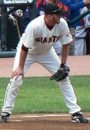 San Francisco Giants 1st baseman Lance Niekro